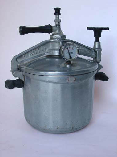 Autocuiseur Autothermos